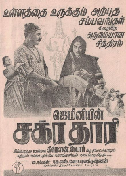 Poster for the 1948 South Indian Tamil film Chakrathari